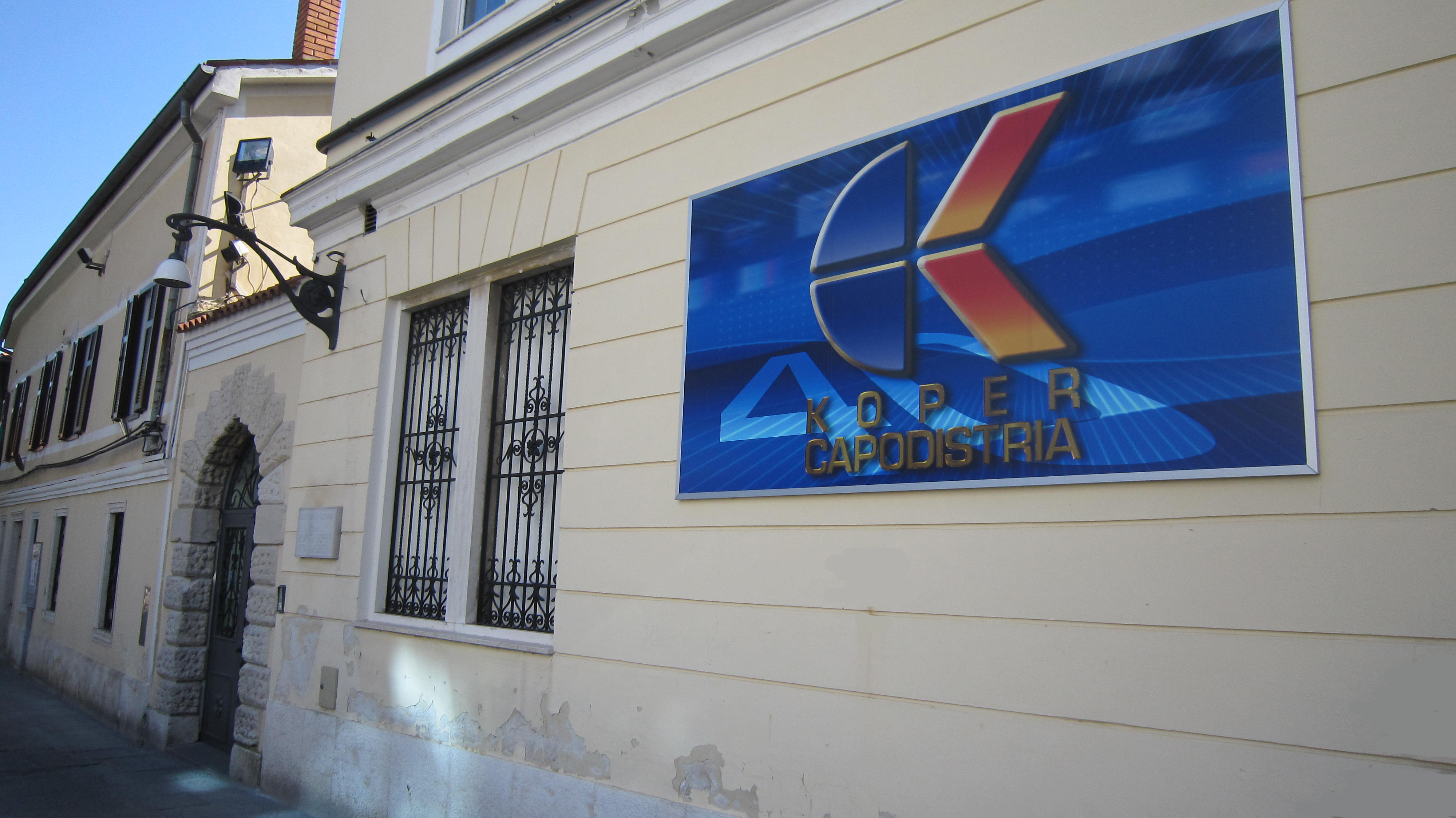 sede di tv koper-capodistria